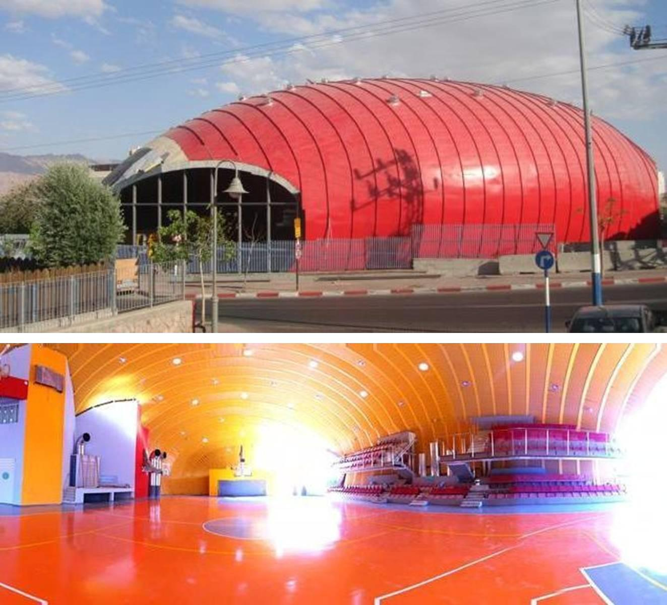 Sports Center at Eilat Israel. Designed by Bodek Achitects